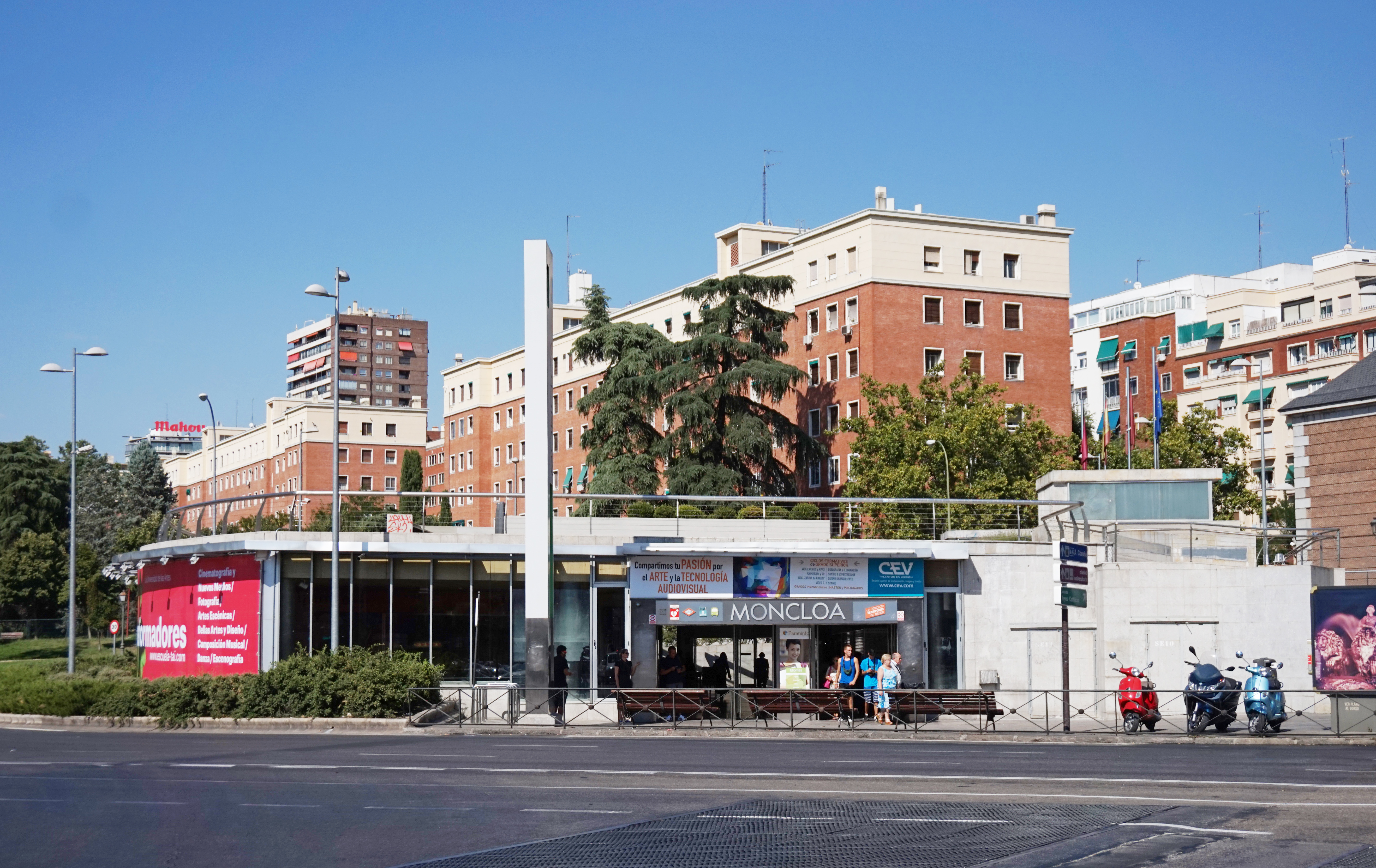 Moncloa metro station in Madrid, Spain.This photograph was taken with a Sony ILCE-5000